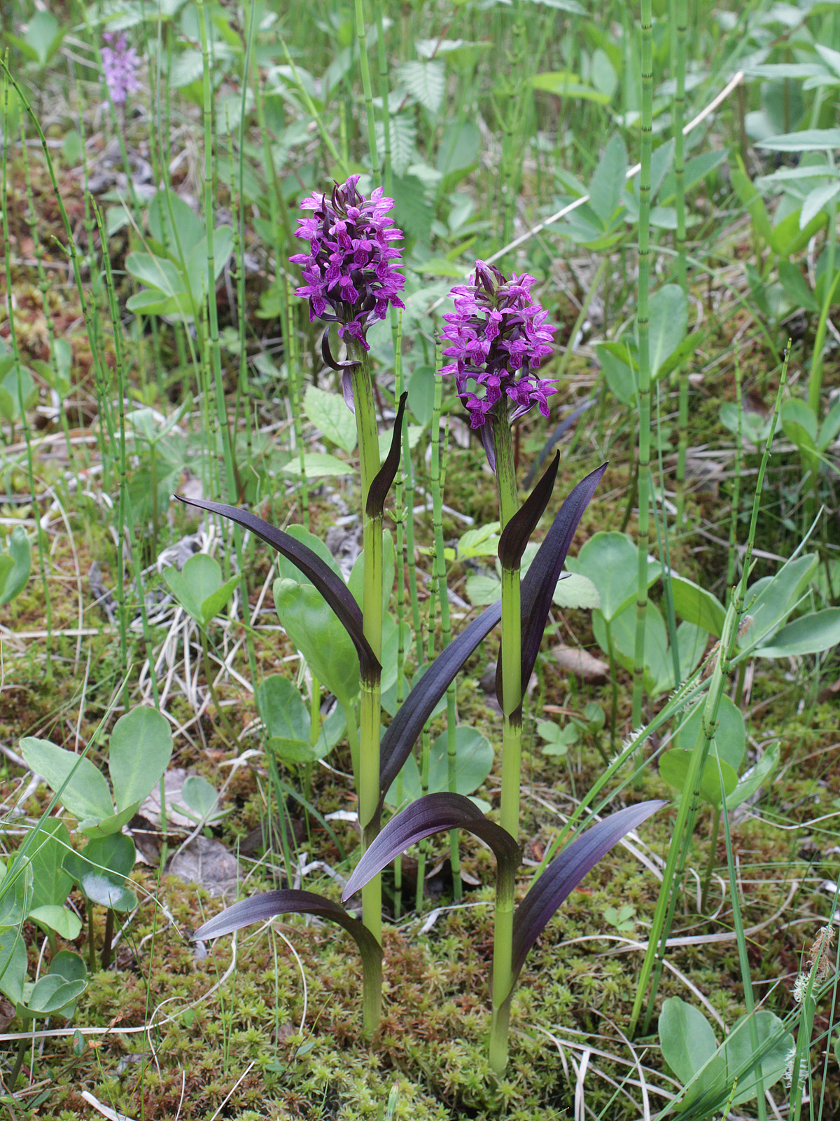 Orchidaceae, Dactylorhiza incarnata ssp. cruenta